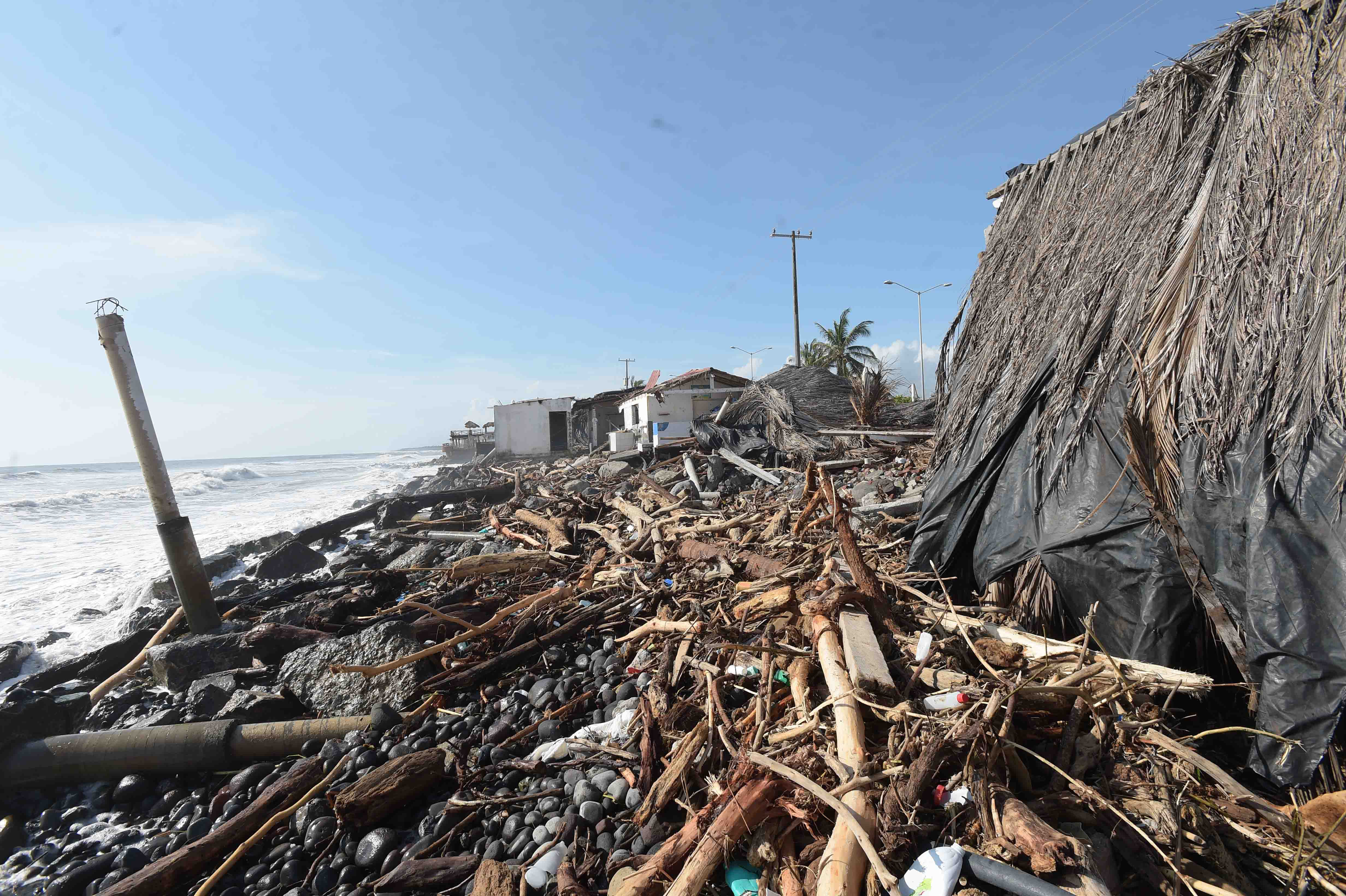 Coastal damage caused by Hurricane Patricia in Colima, Mexico.